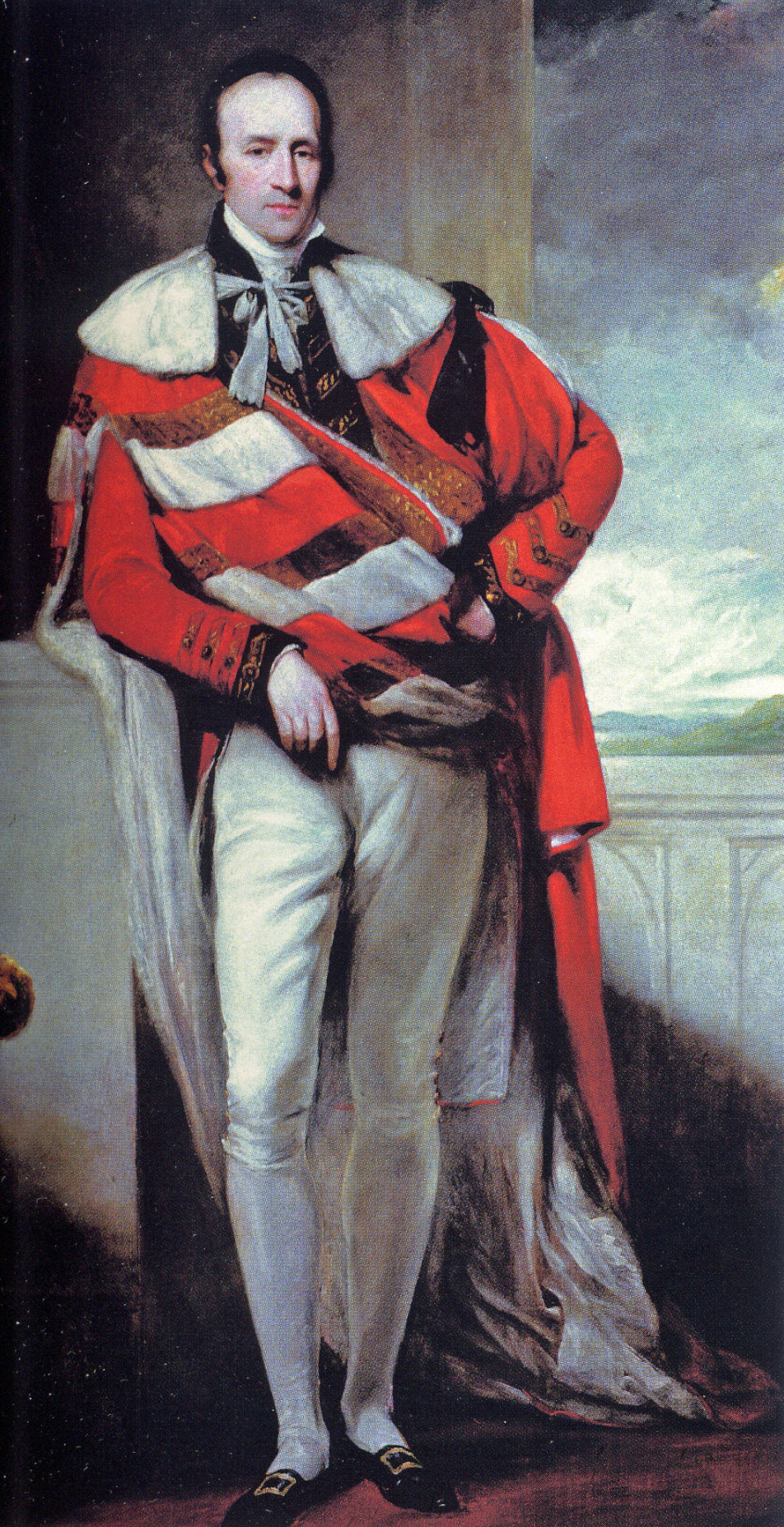 Portrait of Robert Grosvenor, 1st Marquess of Westminster (1767-1845)